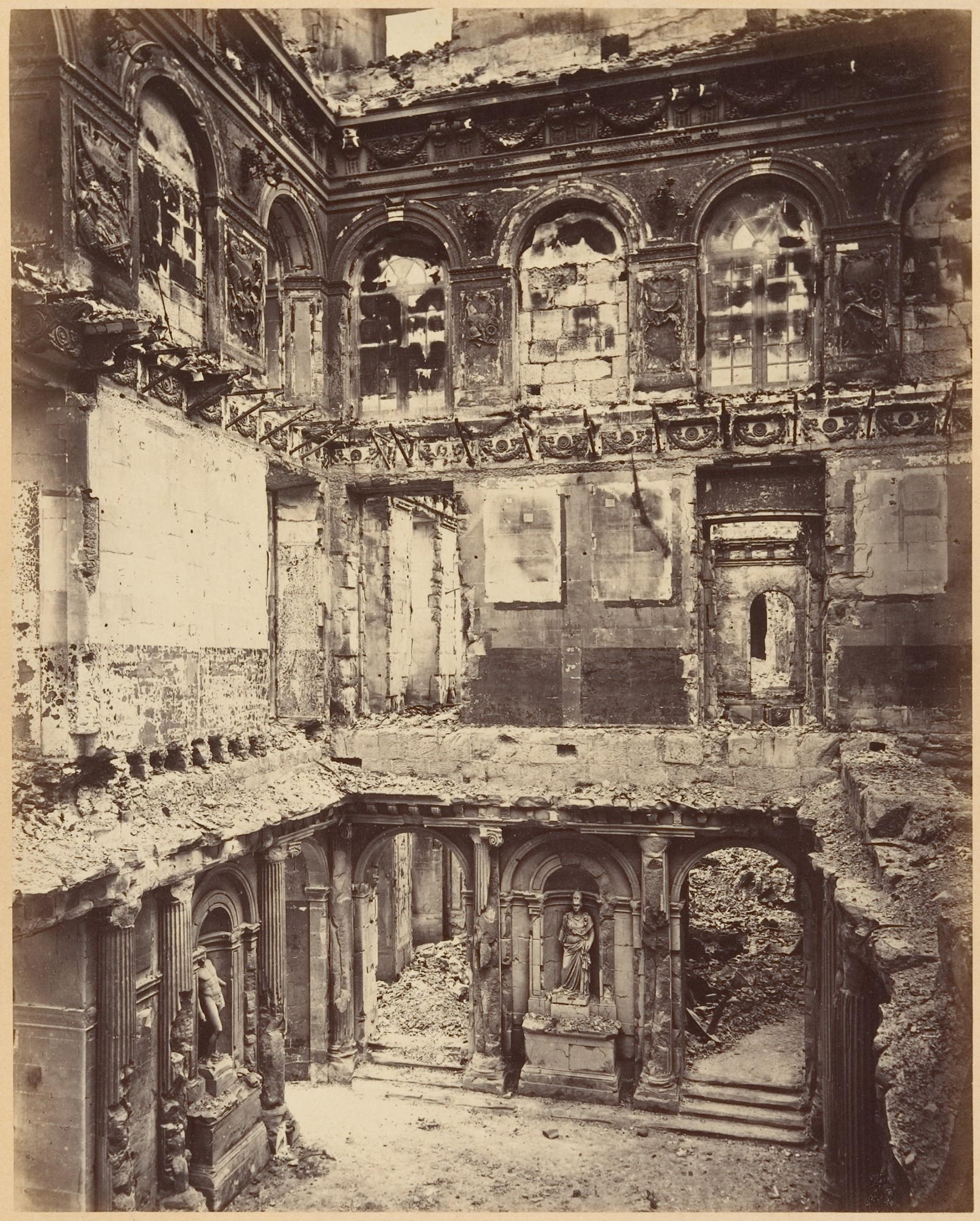 Les Ruines de Paris et de ses Environs 1870-1871: Cent Photographies: Premier Volume. Par A. Liébert, text par Alfred d'Aunay. Author: Alfred d'Aunay (French) Date: 1870–71 Medium: Albumen silver prints from glass negatives Dimensions: Images approx.: 19 x 25 cm (7 1/2 x 9 13/16 in.), or the reverse Mounts: 32.8 x 41.3 cm (12 15/16 x 16 1/4 in.), or the reverse Classification: Albums Credit Line: Joyce F. Menschel Photography Library Fund, 2007 Accession Number: 2007.454.1.1–.33